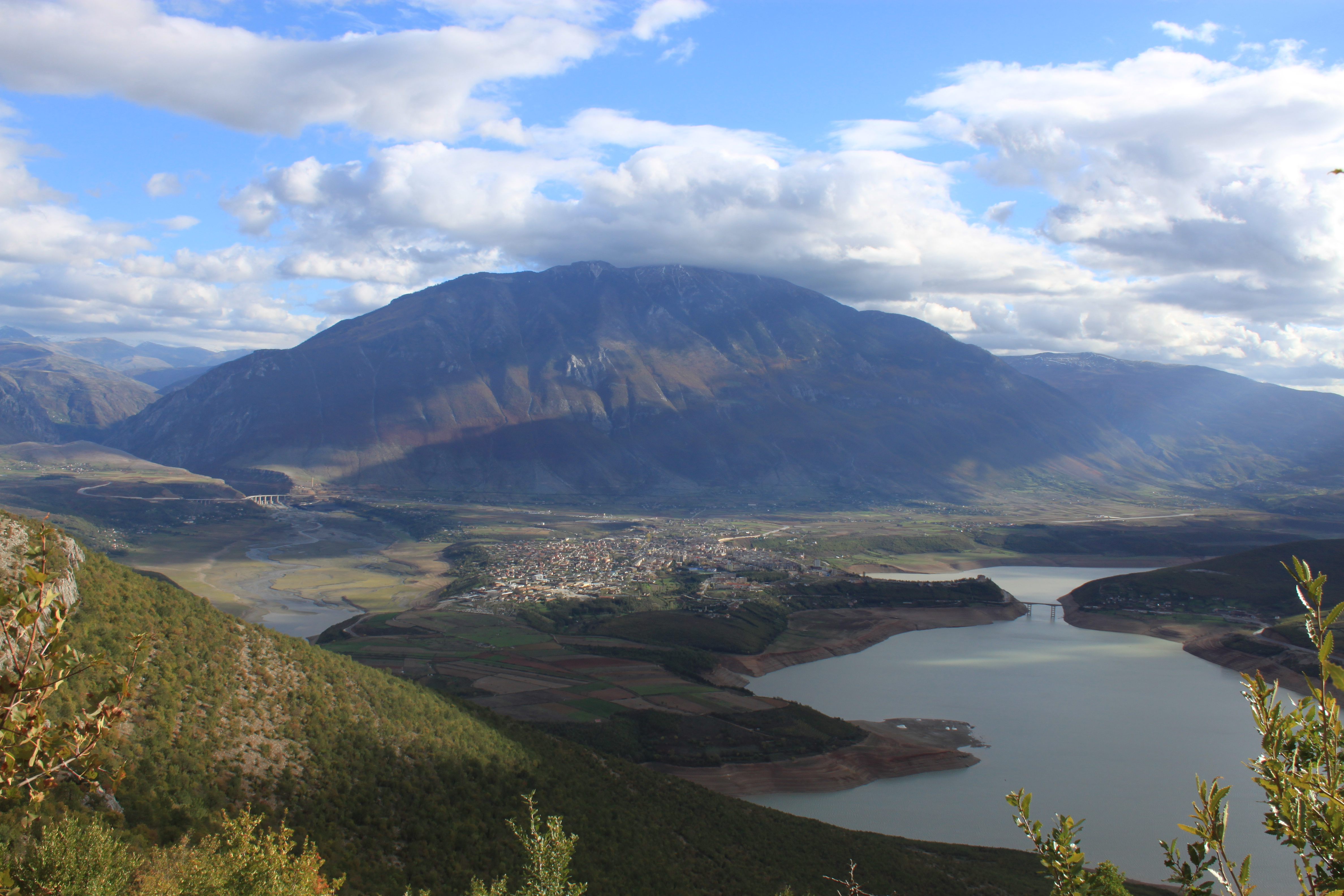 Poshtë nmalit të Gjallicës shtrihet pellgu i Drinit dhe qyteti i Kukësit qendër e Qarkut Kukës.